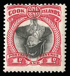 Postage stamp of the Cook Islands, James Cook inverted, 1 penny, Yver #39.